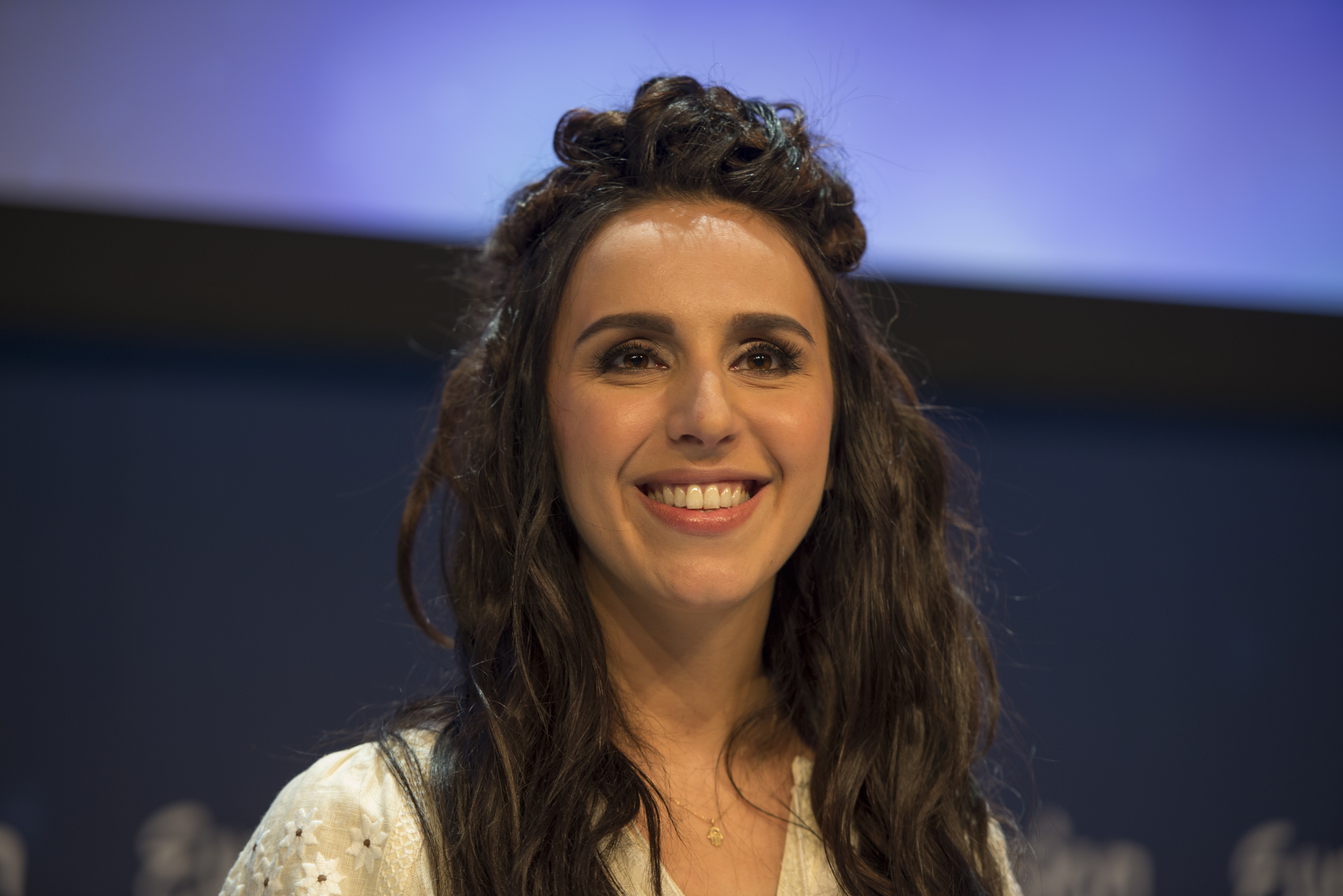 Jamala at a Meet & Greet during the Eurovision Song Contest 2016 in Stockholm. (Help translate this text)